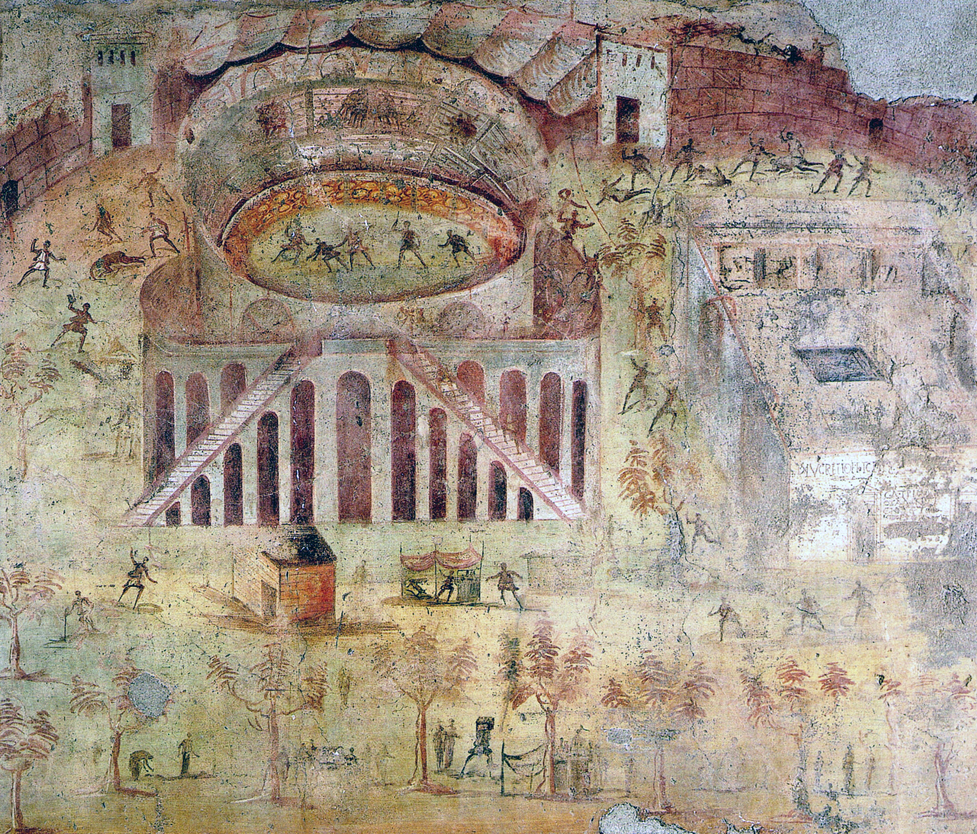 Battle between inhabitants of Pompeii and Nuceria in the Amphitheatre of Pompeii (see Tacitus Annals' XIV.17). Roman fresko from Pompeii in the Museo Archeologico Nazionale (Naples)